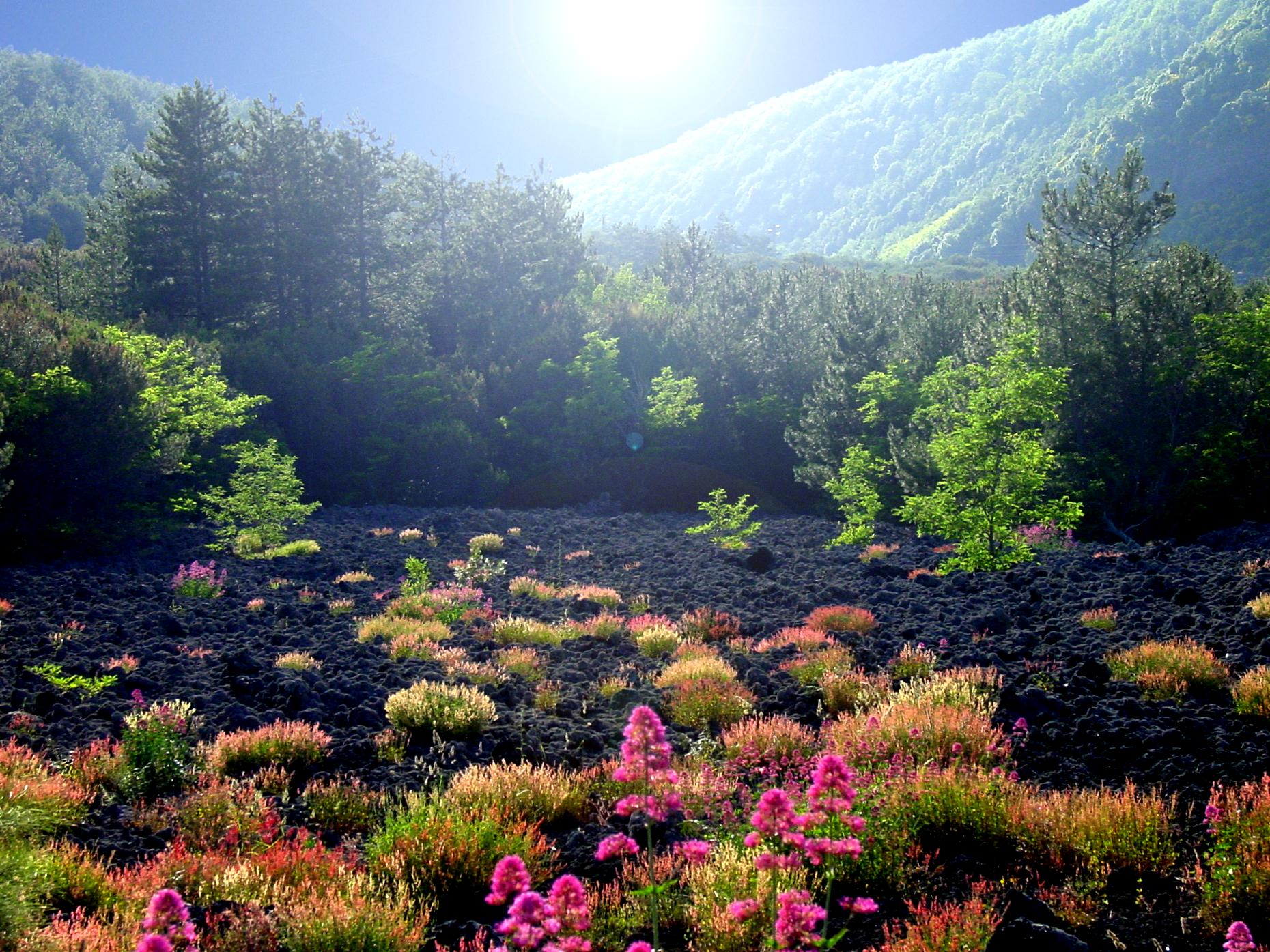 Mount Vesuvius landscape — in Vesuvius National Park, Campania.